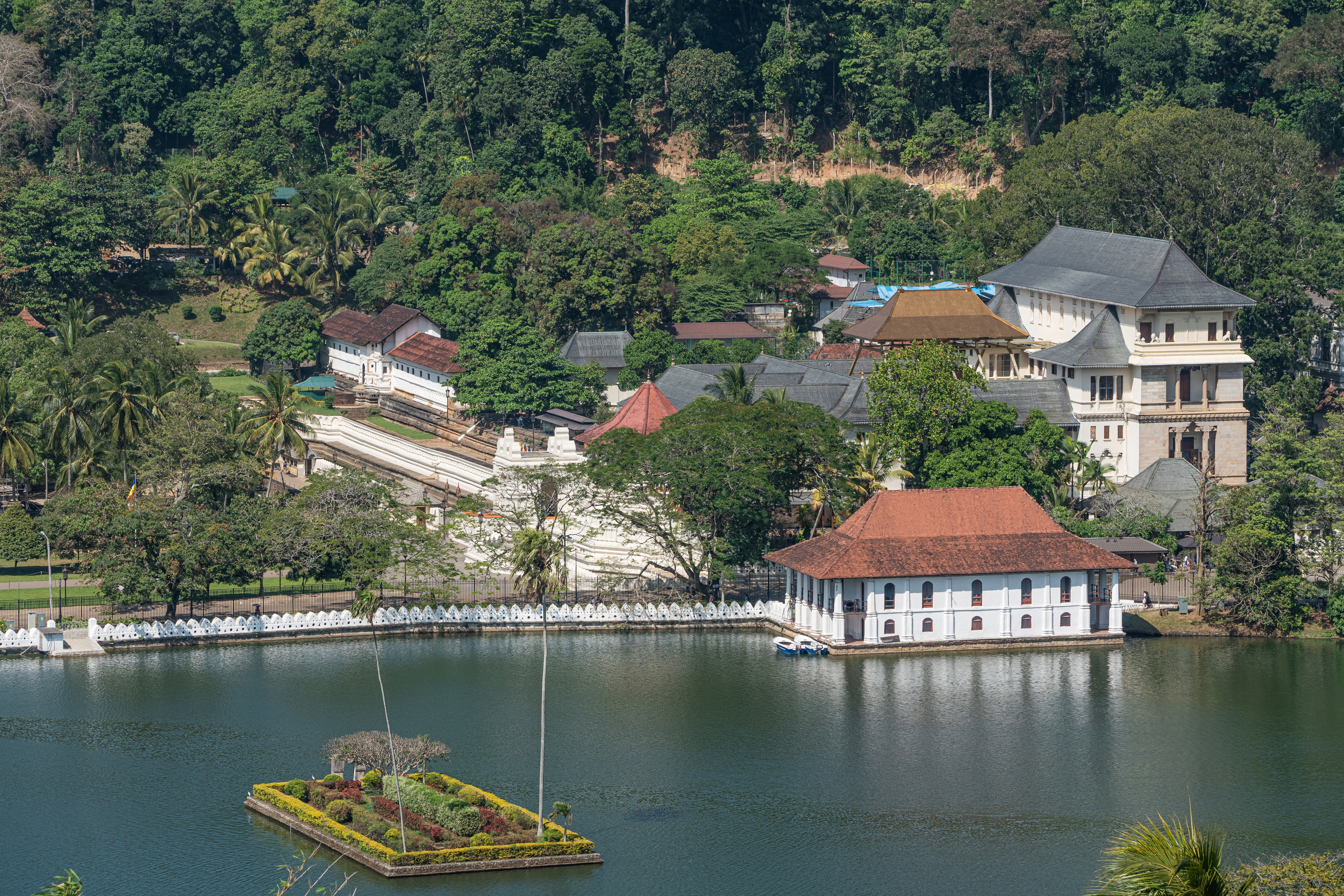 View of the Sacred Tooth Temple and Queen's Bath from Arthur's Seat viewpoint in Kandy, Sri Lanka